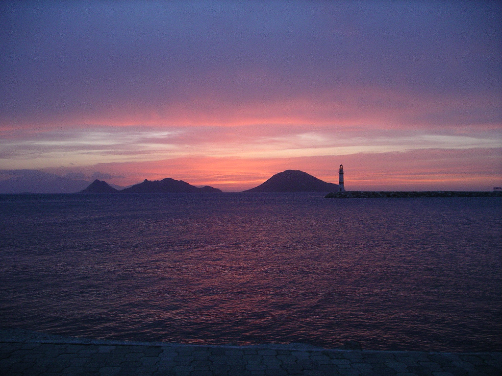 Sunset over the Aegean Sea from Turgutreis, Turkey.